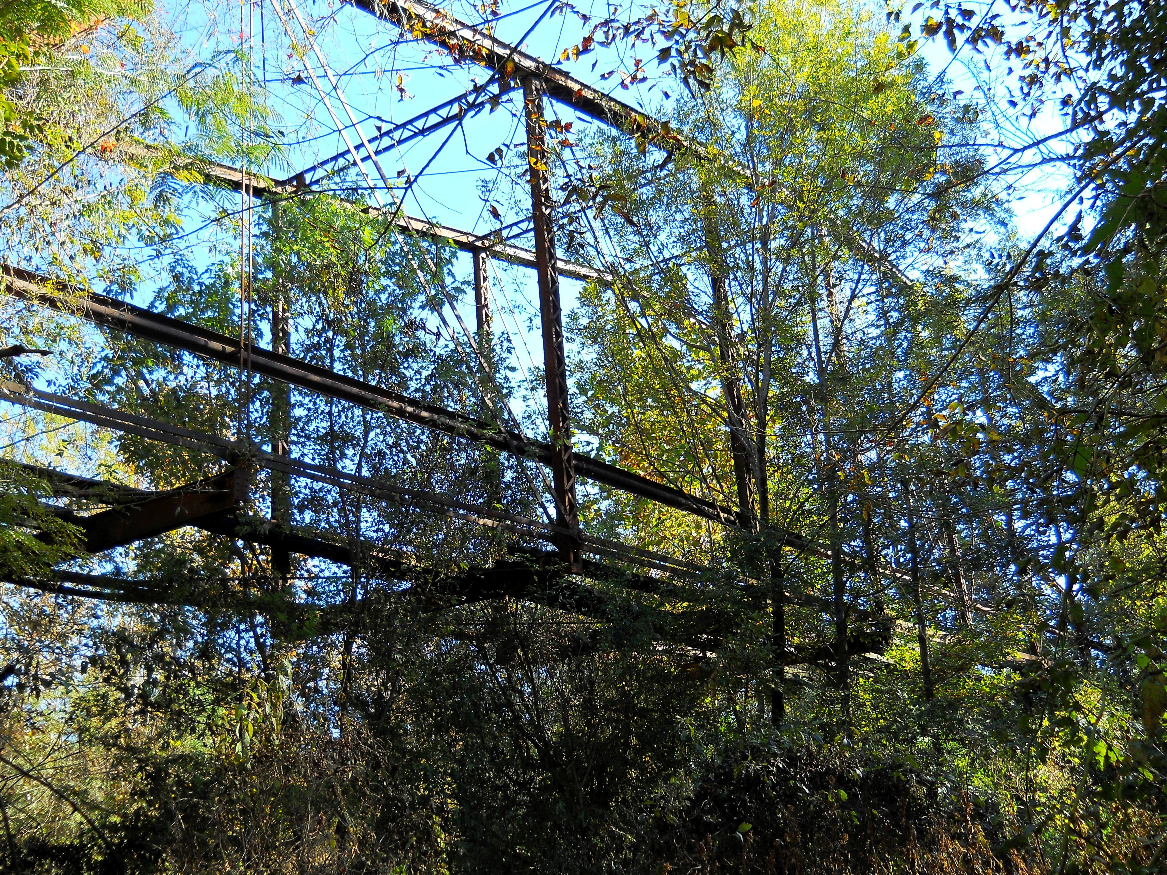 Underside of the camelback truss on the abandoned Mahned Bridge over the Leaf River in Perry County, Mississippi, USA.